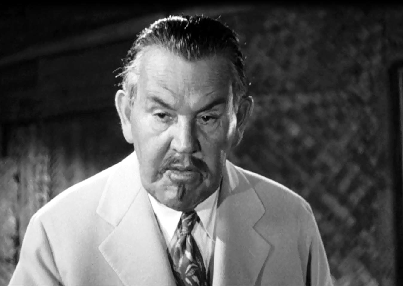 Low resolution screenshot of Sidney Toler as Charlie Chan from the American film Dangerous Money (1946). The film is in the public domain due to the omission of a valid copyright notice on its original prints.